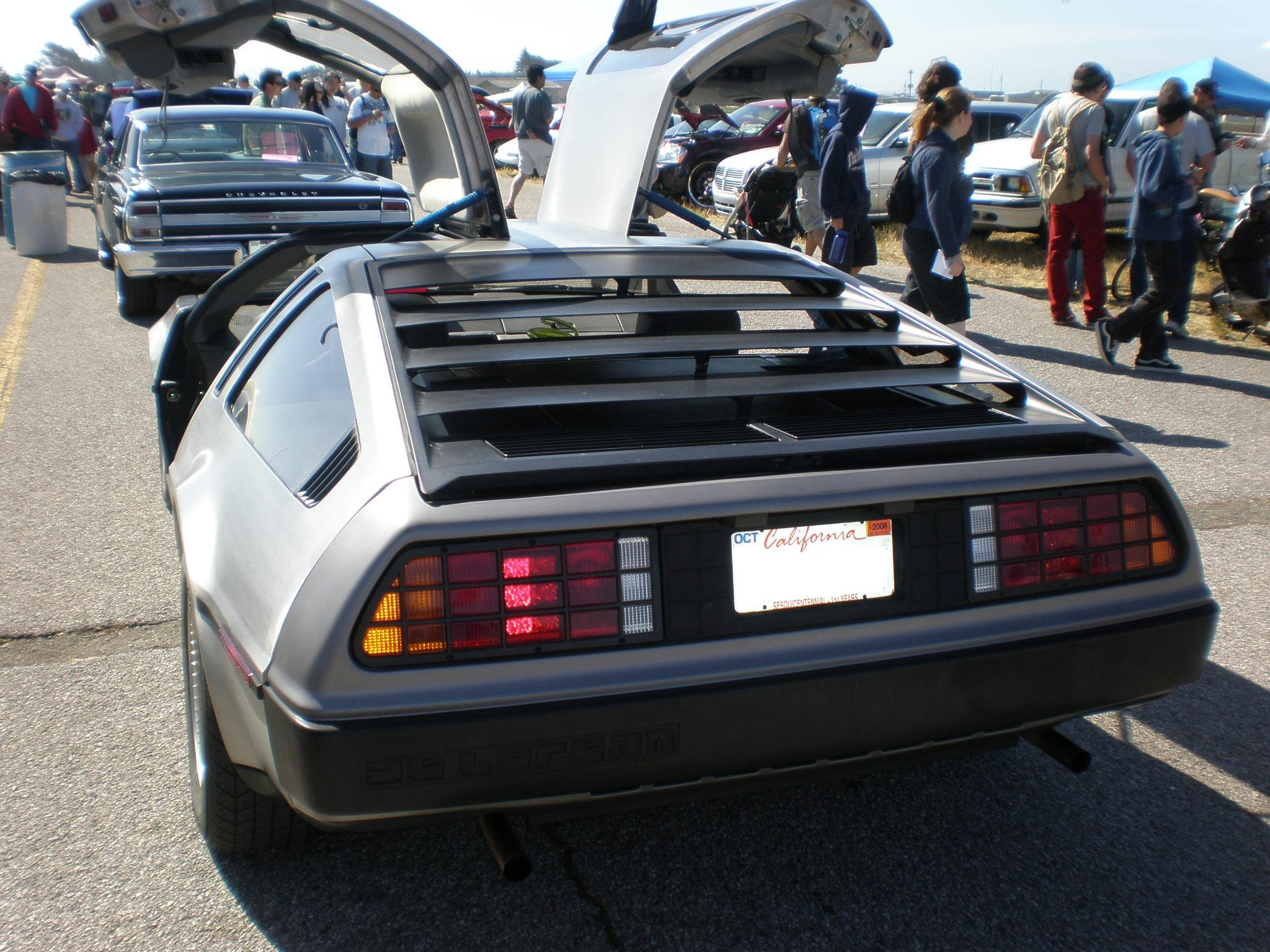 A DeLorean DMC-12 at the Pacific Coast Dream Machines vehicle show at the Half Moon Bay Airport in Half Moon Bay, California